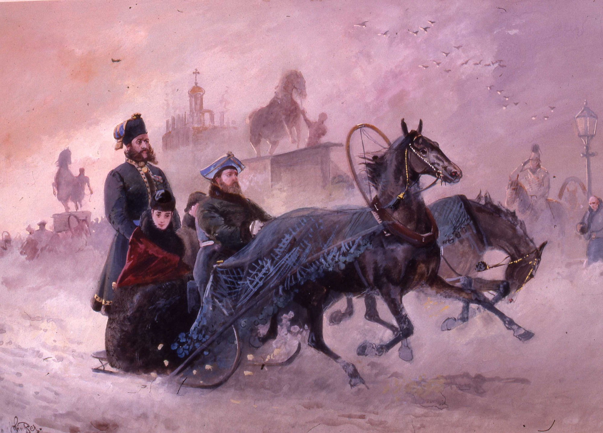 Marie Feodorovna, Empress of Russia, driving in a sleigh at St Petersburg in snow DM 233: As title, the sleigh drawn by two horses; three other figures with the Empress. Shows, in the b/g, two of the four bronze equestrian statues by Baron P.K. Klodt (1839) that decorate the Anichkov Bridge. Signed and dated.